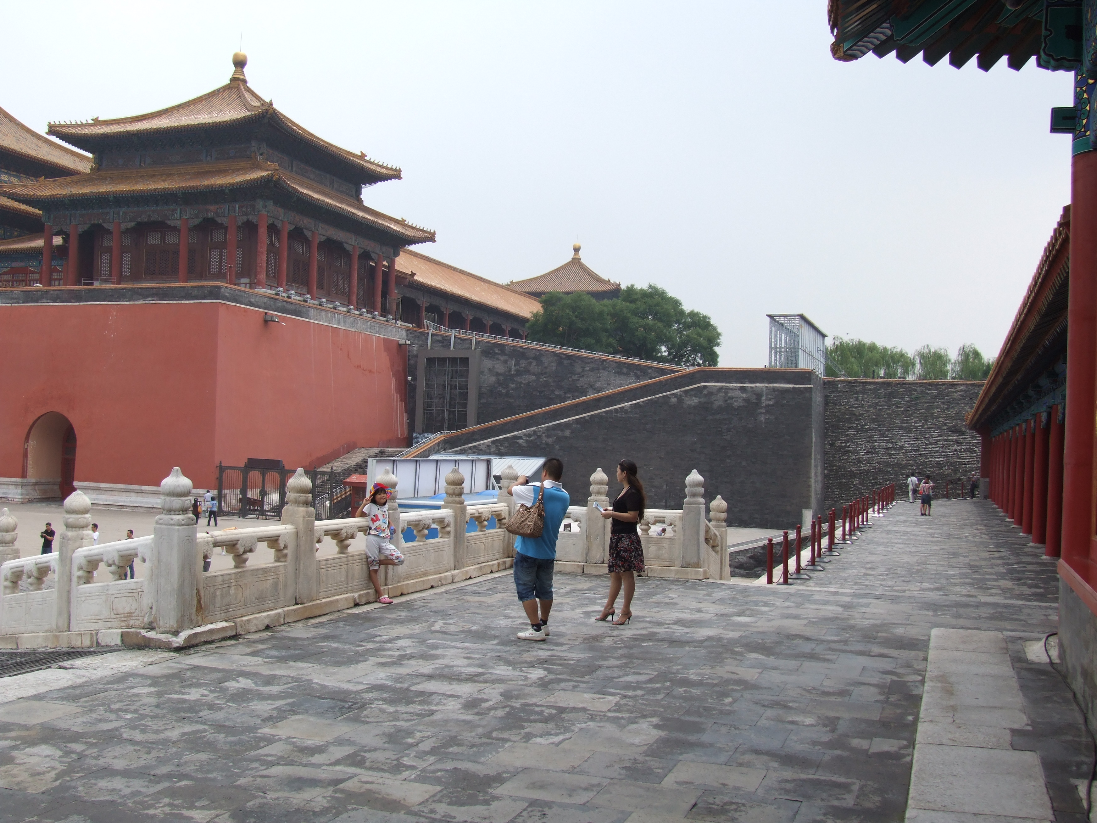 Forbidden City